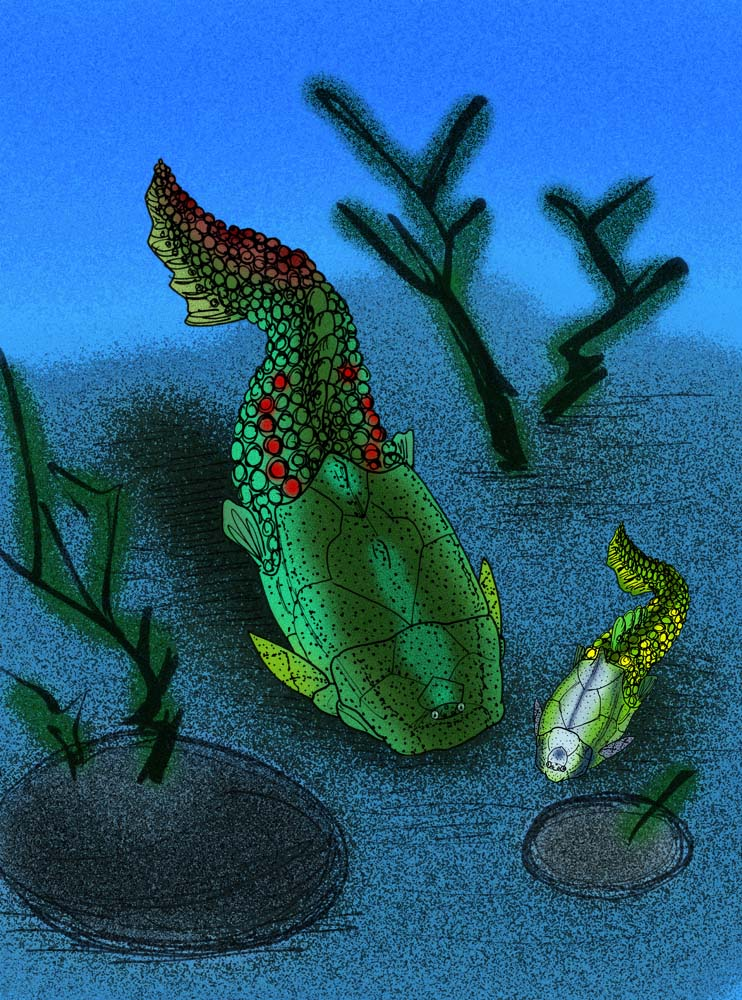 My reconstruction of the primitive Southeast Asian antiarch placoderms, Yunnanolepis chii (larger) and Y. parvus (smaller)